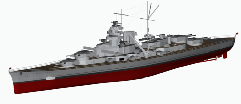 Battleship Bismarck